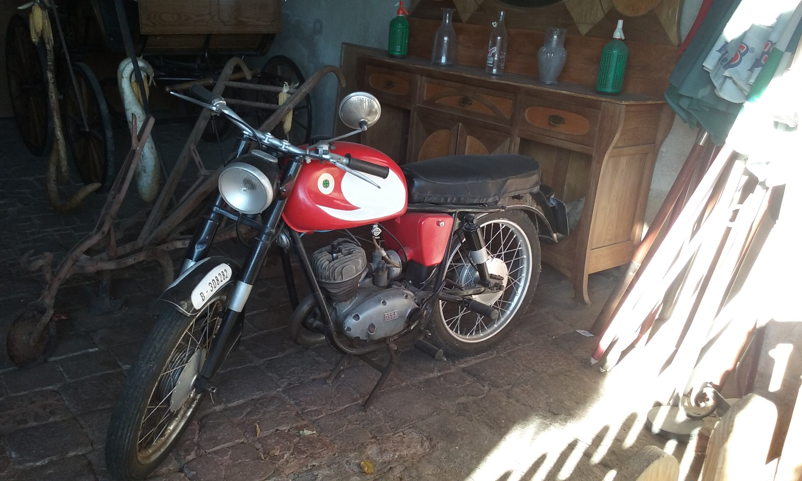 OSSA 125 C2 (1961), in an old farm at Santa Helena d'Agell (Catalonia)